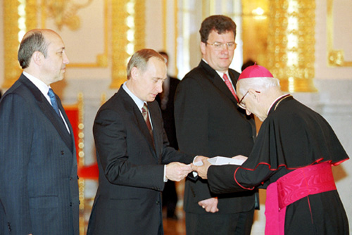 GREAT KREMLIN PALACE, MOSCOW. Georg Zur, ambassador of the Vatican in Moscow, presenting his credentials to President Vladimir Putin.